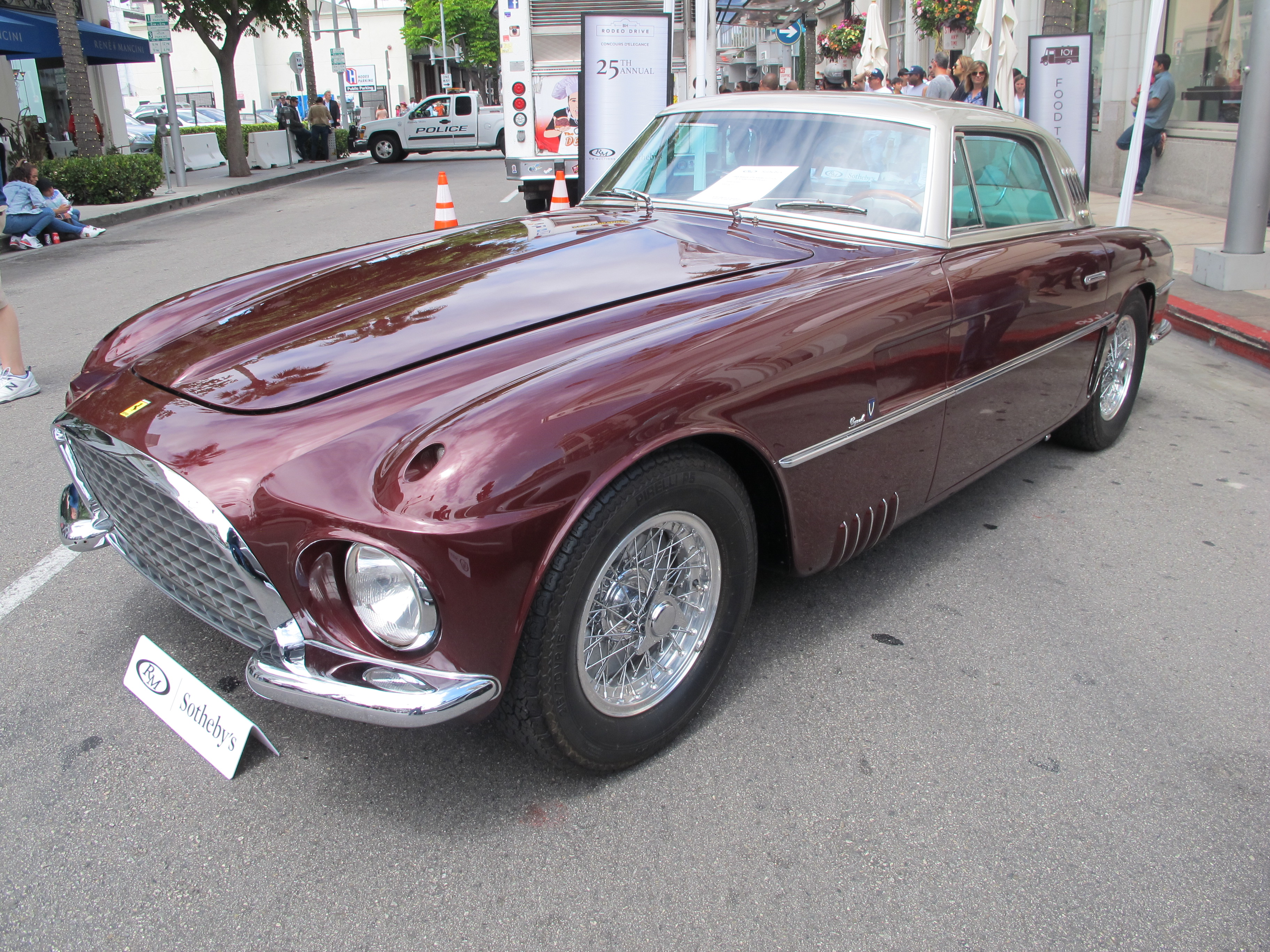 A 1953 Ferrari 375 America coupe with bodywork by Carrozzeria Vignale. At the 25th Rodeo Drive.